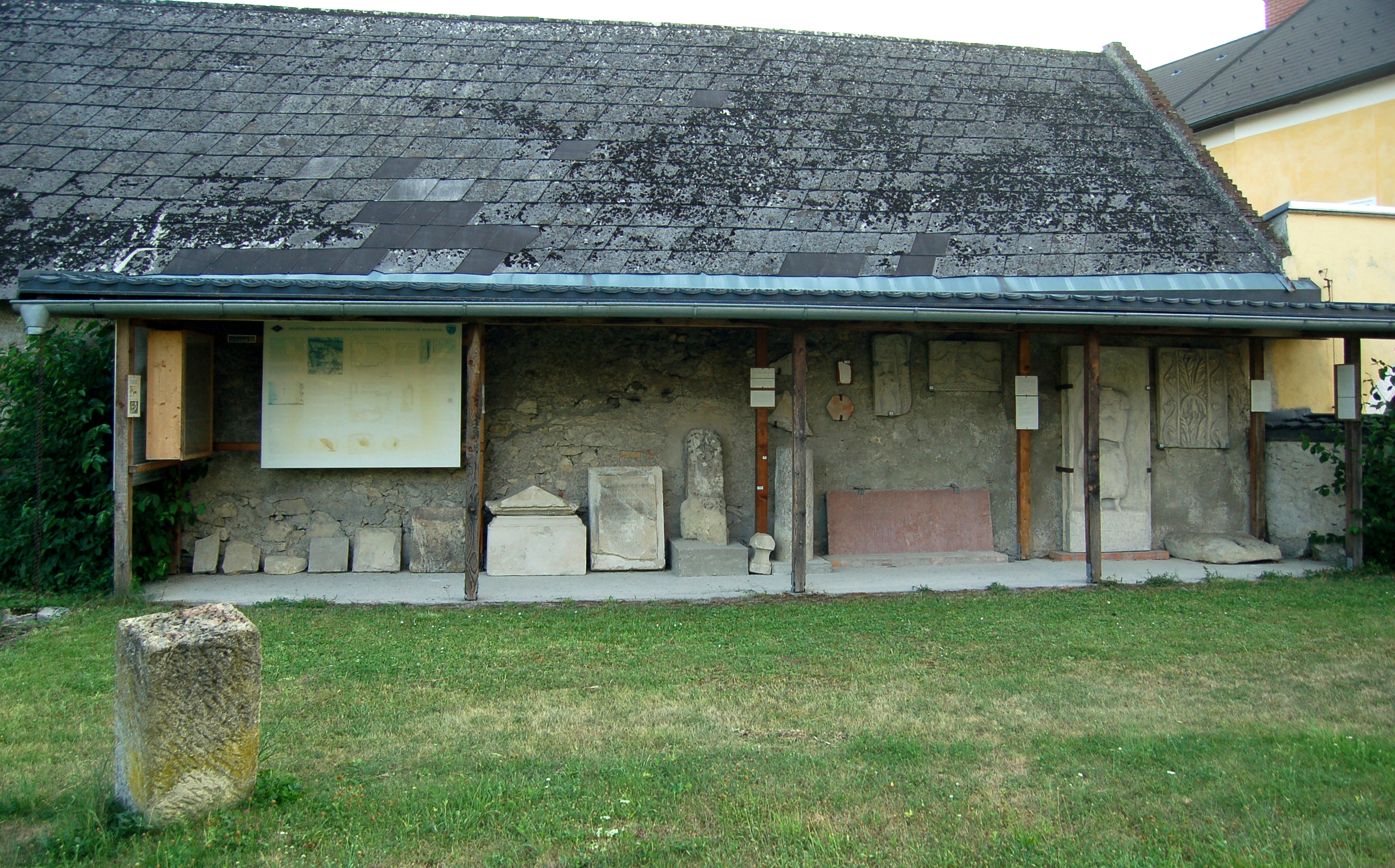 In the churchyard of the parish church Peter and Paul in Weigelsdorf, municipality of Ebreichsdorf, Lower Austria, some archeological stone parts are presented.